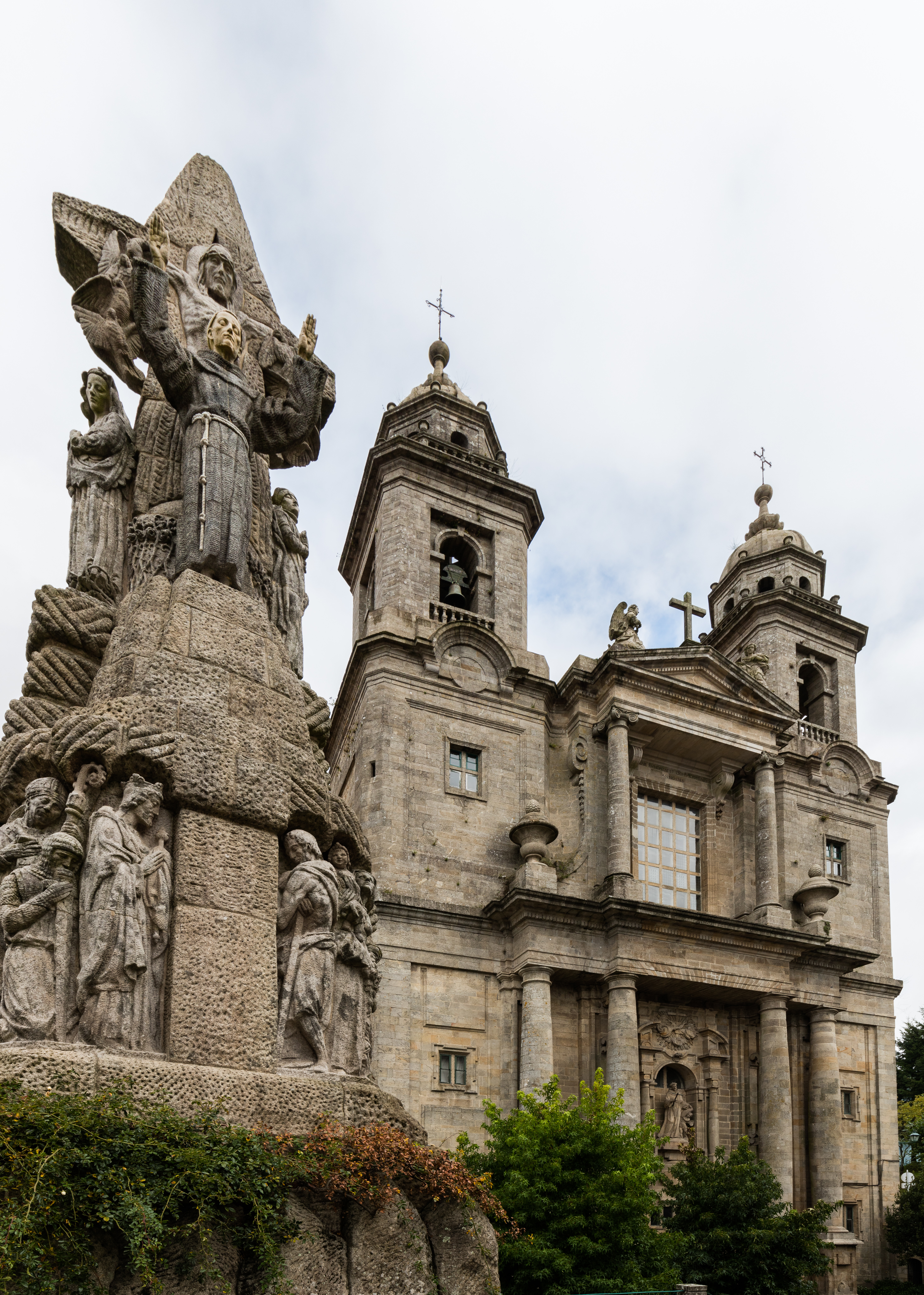 St Franciscus Monastery, Santiago de Compostela, Spain